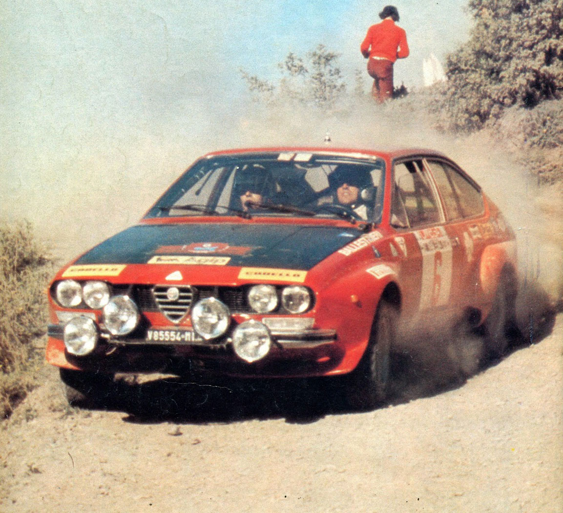 Elba (Tuscany, Italy), April 17-19, 1975. Italian rally driver Amilcare Ballestrieri and his co-driver Enrico Gigli on an Alfa Romeo Alfetta GT (Group 2) at the 1975 Rallye Elba.